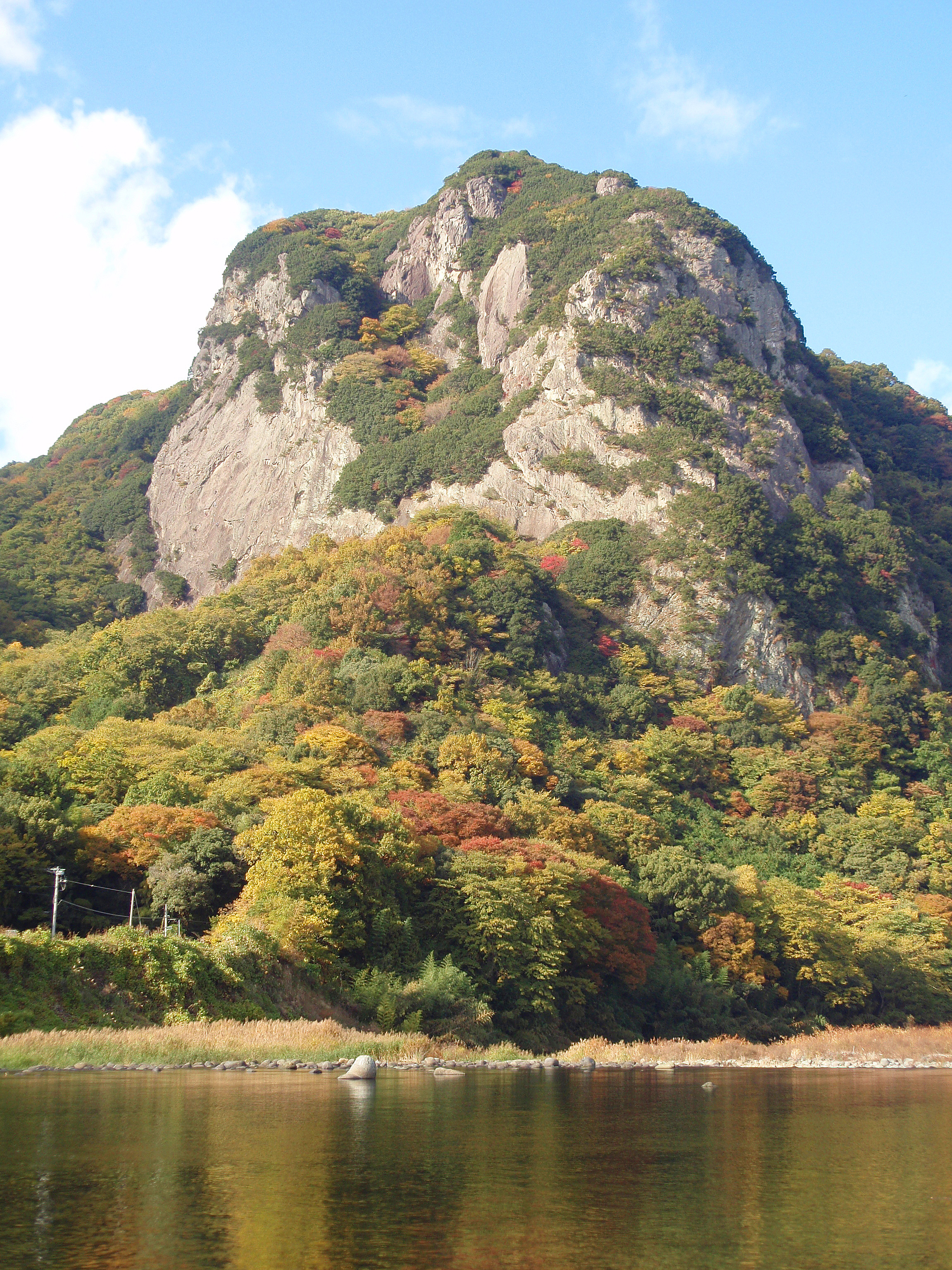 Mount Jō, Izunokuni, Shizuoka pref., Honshu, Japan.